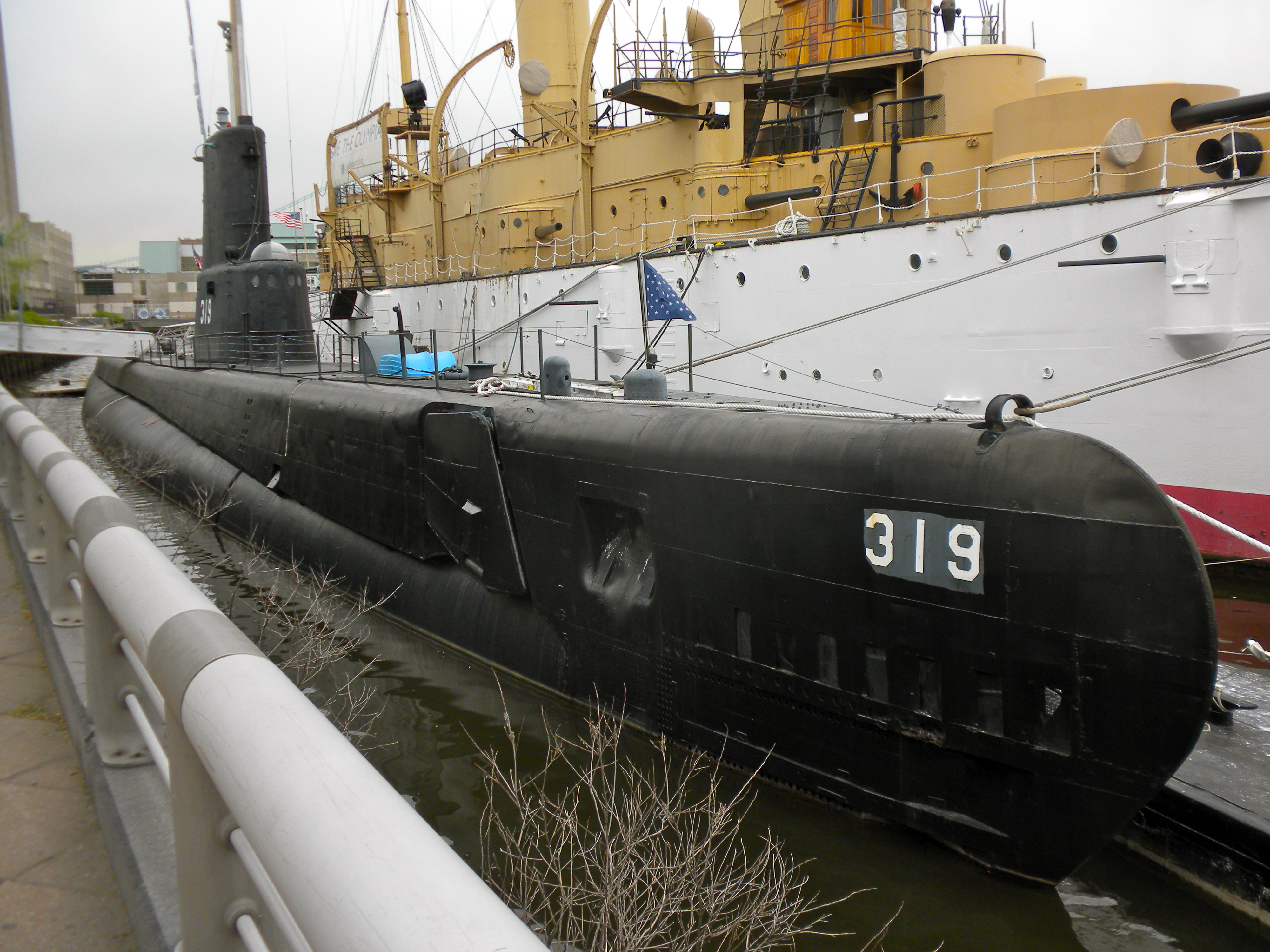 USS BECUNA (SS–319) on the NRHP since August 29, 1978. Now at Penn's Landing, Delaware Avenue, and Spruce Street, in Philadelphia. Submarine used by US in the Pacific in WWII. The ship in the background is the USS Olympia, flagship from the Spanish American War, also on the NRHP